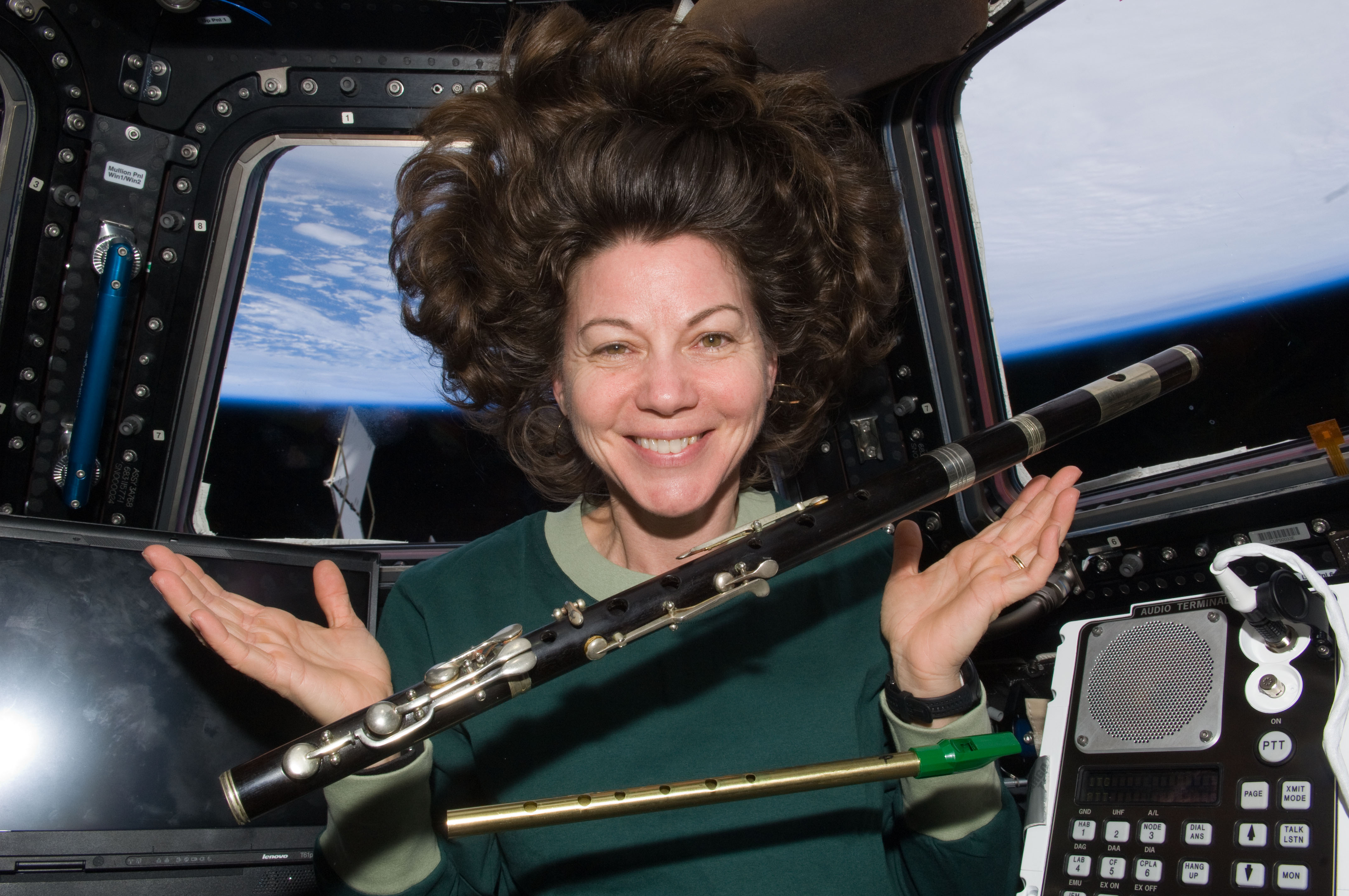 International Space Station Expedition 27 flight engineer, astronaut Catherine "Cady" Coleman, on Saint Patrick's Day (March 17) 2011 in the cupola in the space station. She is showing a traditional Irish flute and a tin whistle she brought to the station in her small allotment of personal items. Coleman has Irish ancestry on both sides of her family and she played the two instruments illustrated during an international broadcast from earth orbit to celebrate Saint Patrick's Day. Coleman brought her own flute into space, another belonging to Ian Anderson of the rock music group Jethro Tull, and the two instruments shown, belonging to the Irish music group, The Chieftains. The larger instrument in the picture is a hundred-year-old flute belonging to Matt Molloy, and the smaller tin whistle or penny whistle belongs to Paddy Maloney. The recording of Coleman's Saint Patrick's Day performance on NASA TV was later included in a track called "The Chieftains In Orbit" on their 2012 album, Voice of Ages.